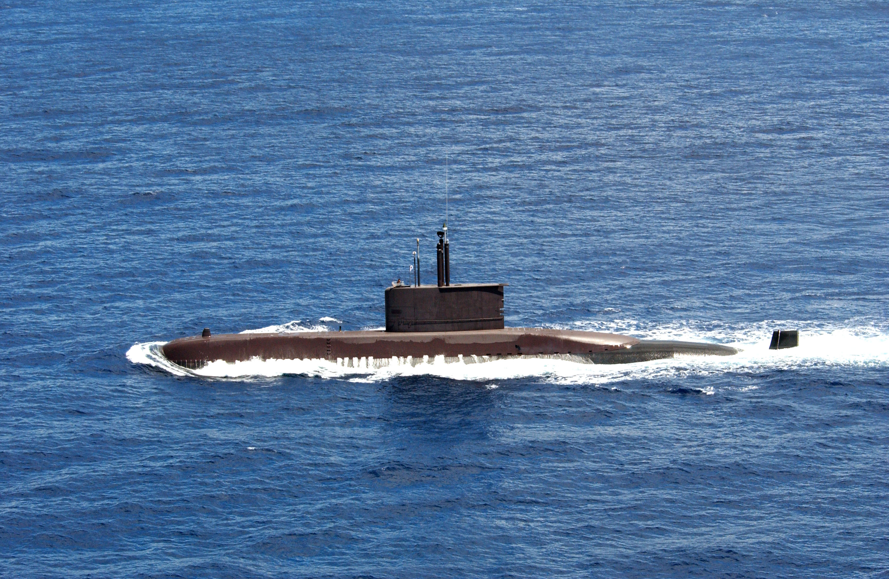 040706-N-6811L-080 Pacific Ocean (July 6, 2004) – Republic of Korea Submarine Chang Bogo (SSK 61) heads out to sea during exercise Rim of the Pacific (RIMPAC). RIMPAC is the largest international maritime exercise in the waters around the Hawaiian Islands. This years exercise includes seven participating nations; Australia, Canada, Chile, Japan, South Korea, the United Kingdom and the United States. RIMPAC is intended to enhance the tactical proficiency of participating units in a wide array of combined operations at sea, while enhancing stability in the Pacific Rim region. U. S. Navy photo by Photographer's Mate 1st Class David A. Levy (RELEASED) For more information go to